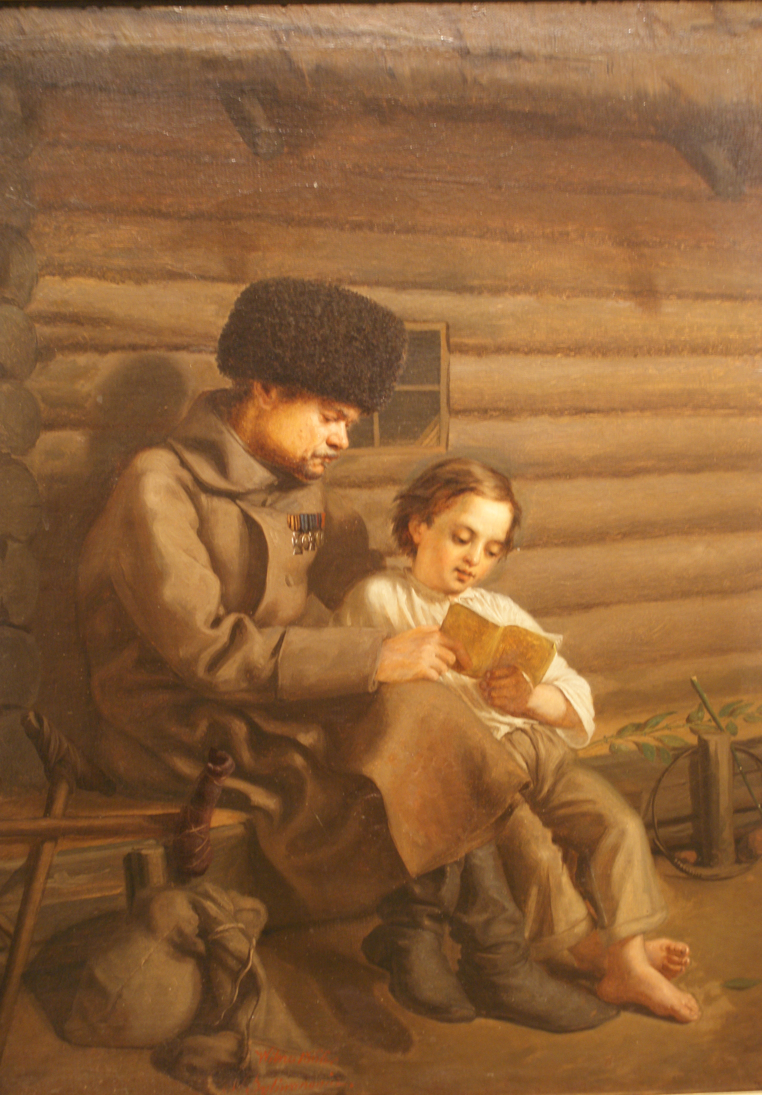 Nikodim Silivanovich. Soldier with a boy